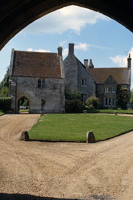 Place Farm - Tisbury The former C15 grange of the Abbess of Shaftesbury. Grade I Listed.